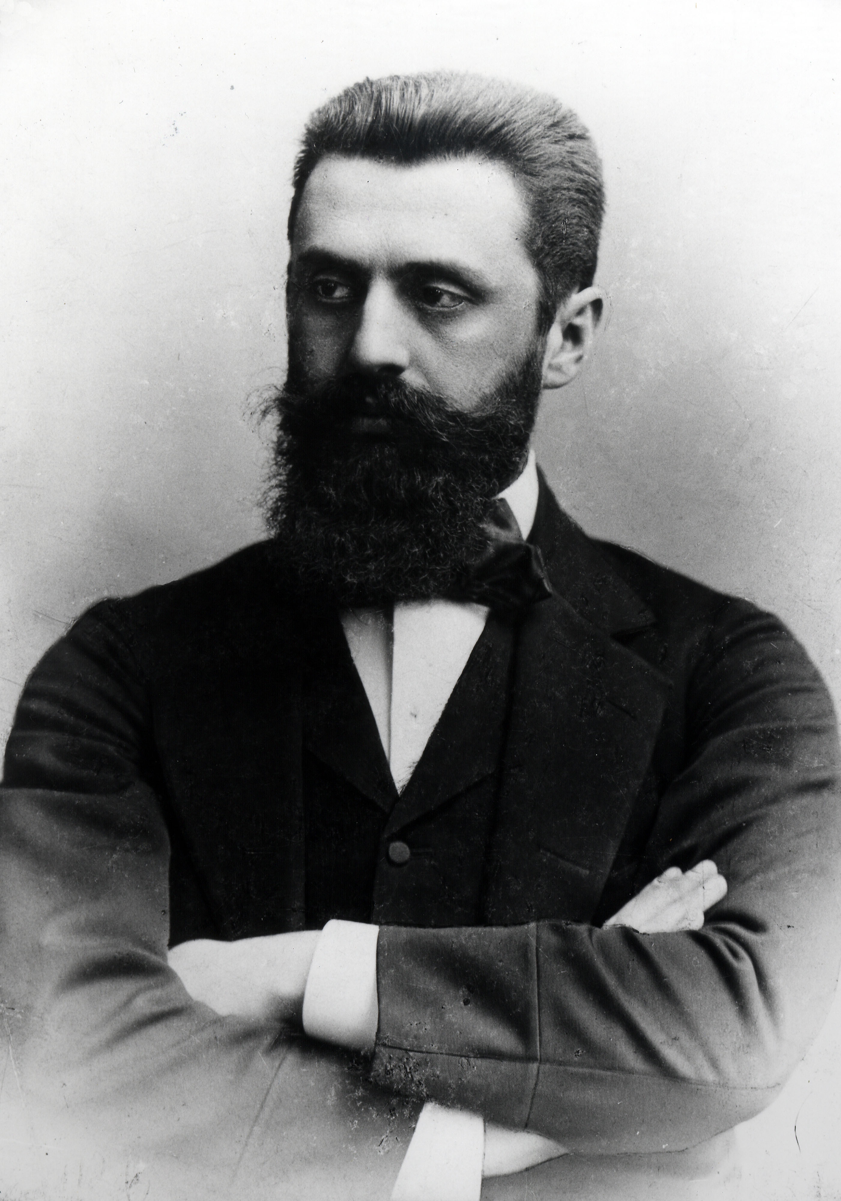 PORTRAIT OF THEODOR HERZL IN 1898. פורטרט של תיאודור הרצל - 1898